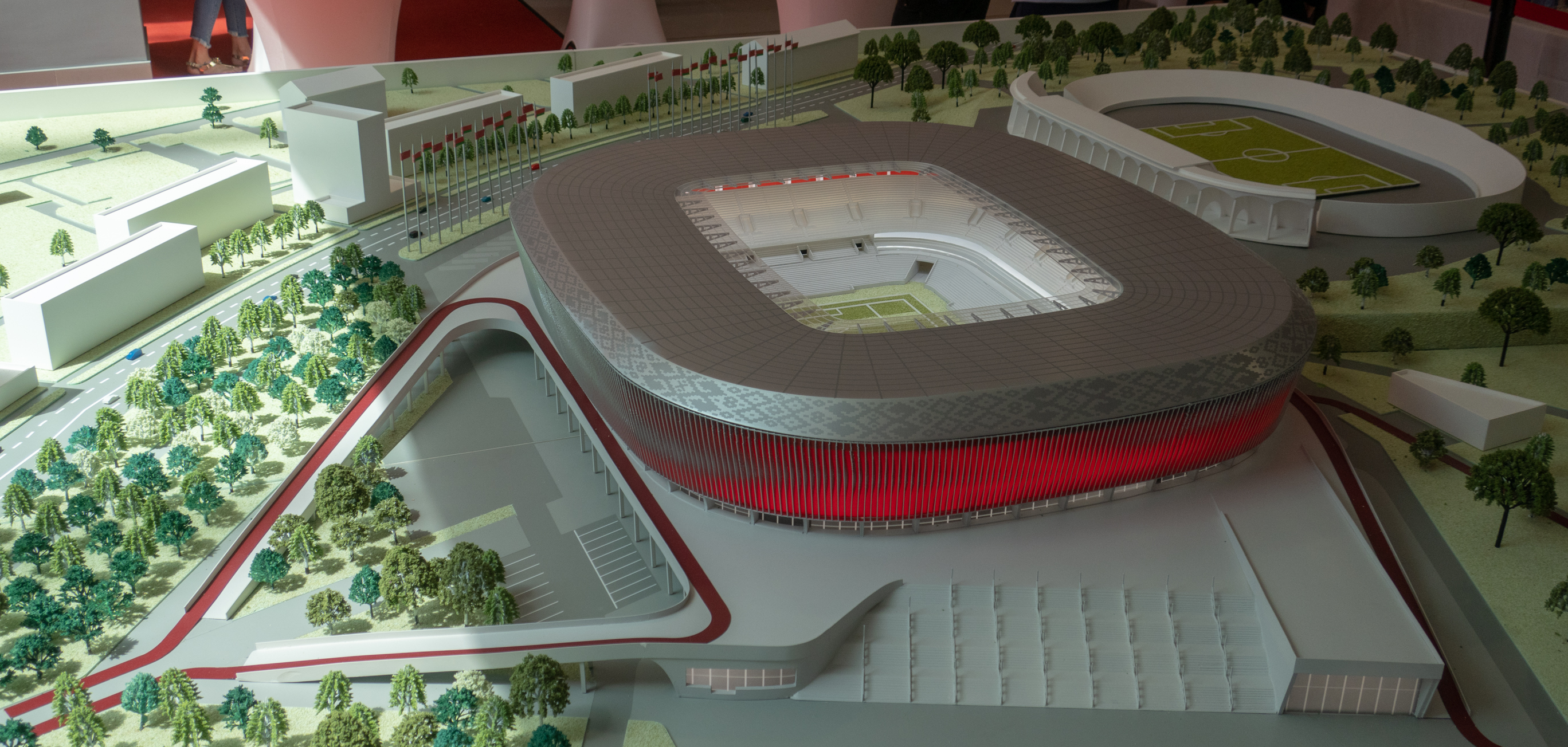 Model of the National Football Stadium of Belarus in Minsk. Seen at Belarusian-Chinese joint exhibition